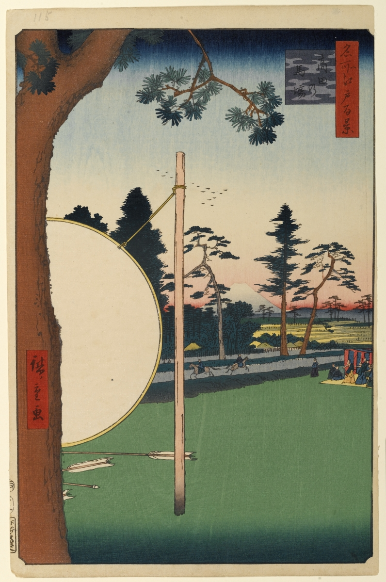 Part of the series One Hundred Famous Views of Edo, no. 115, part 4: Winter.